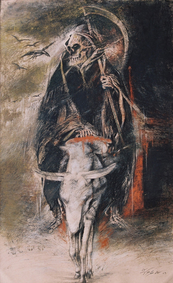 1 Painting La Parca (The Parca) by Antonio García Vega[1]